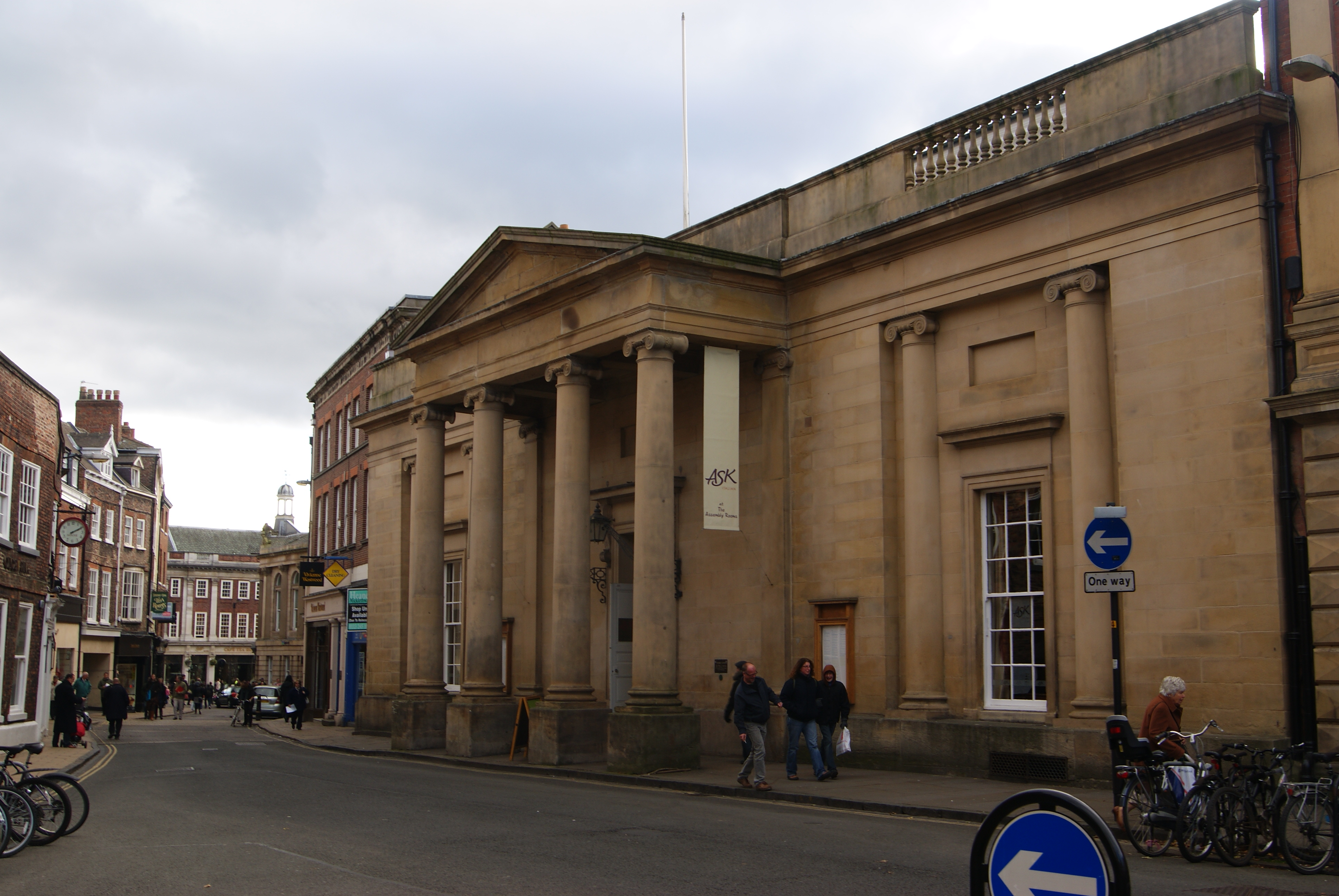 Ask at the Assembly Rooms, Blake Street , York, North Yorkshire. Taken on the afternoon of Thursday the 21st of October 2010.